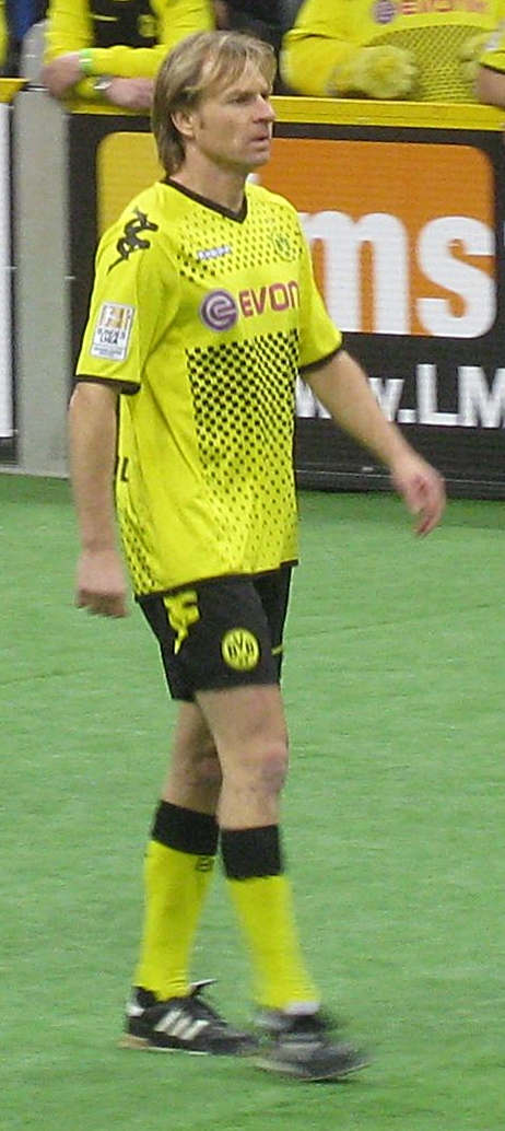 Germany, Bonn, Telekom-Dome: Lothar Sippel (former german Bundesliga professional soccer player) during a tournament as player of the BVB-traditional team.